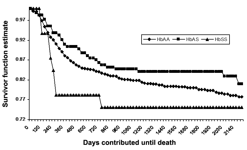 Survival curves of Luo children in an area of Kenya where malaria transmission is intense. HbAS: Heterozygous sickle-cell hemoglobin; HbAA: normal hemoglobin; HbSS: homozygous sickle-cell hemoglobin. Based on data published in Aidoo et.al. Lancet, 2002 , 359, 1311)